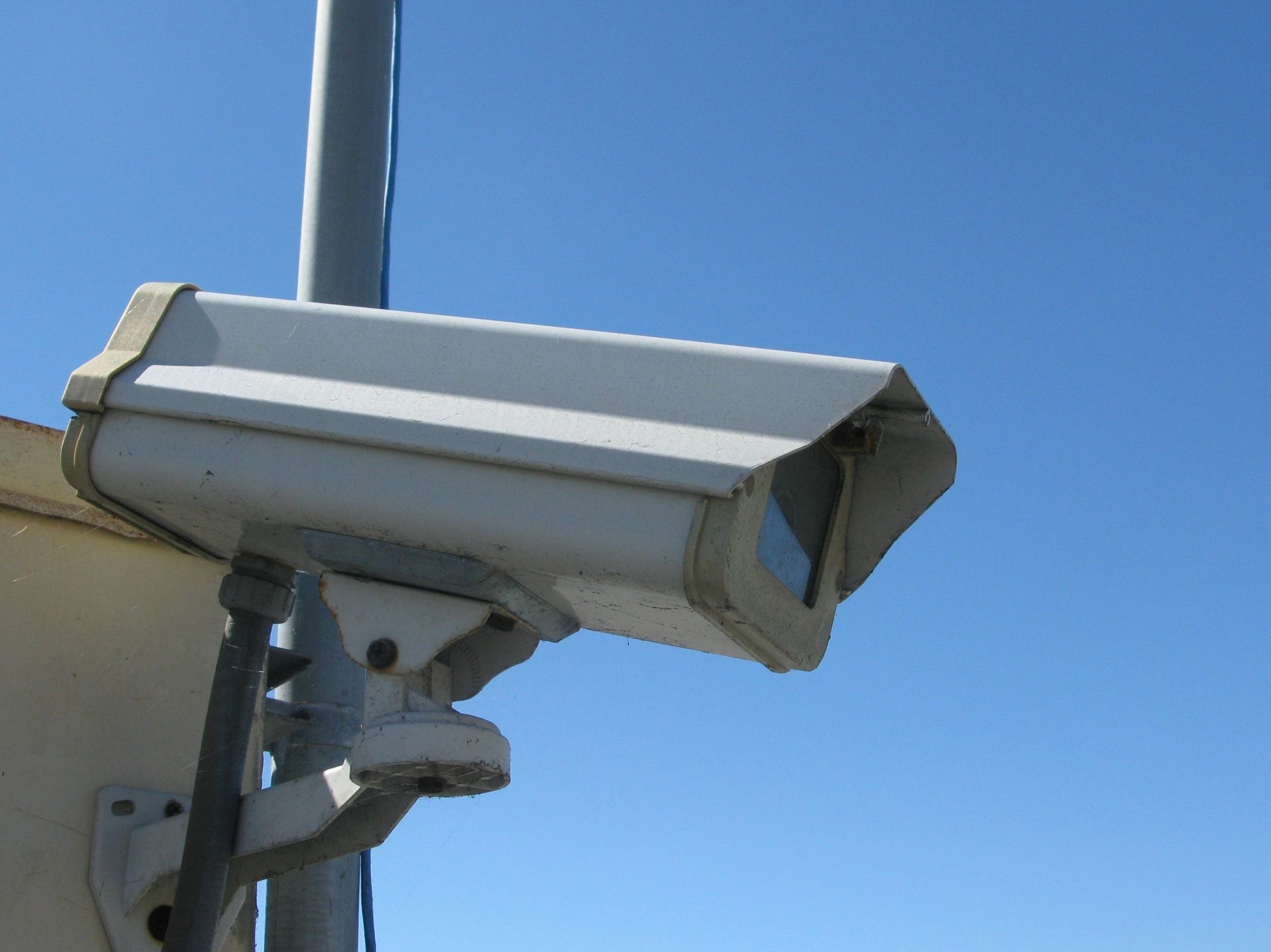 See more: Surveillance Society Not Choking on Data Exhaust Smart cities bristling with HD cameras and sensors capture huge volumes of data exhaust, but most of that information is thrown away. As the Internet of Things advances, cities and transportation systems are becoming "smart" with sensors and HD cameras that capture massive amounts of information. Beyond their intended use, these smart systems also capture a layer of data exhaust that's being largely discarded, but it's only a matter of time until businesses find a way to monetize it according to Todd Matsler of Intel's Intelligent Systems Group.